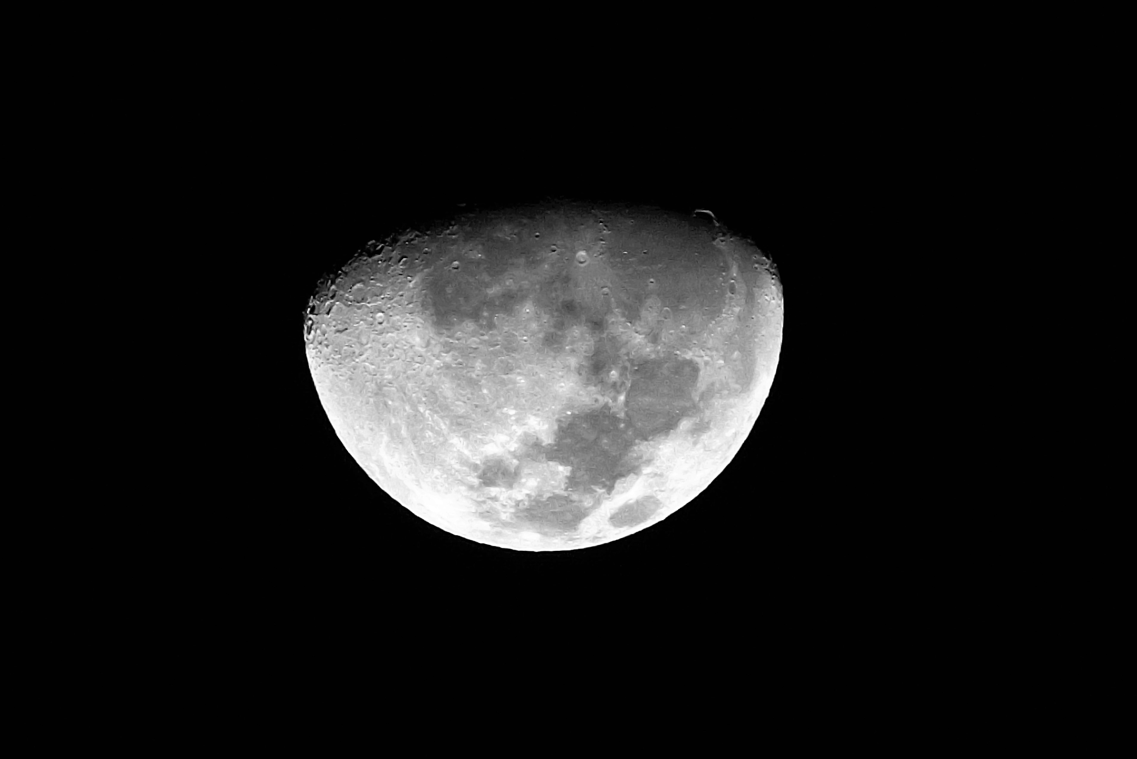 Crescent or gibbous crescent moon observed in northern South America, it clearly shows the Sea of Serenity, the Sea of Tranquility, the Sea of Fertility, the Sea of Crisis, the Known Sea and the Rain Sea, which are important features visible from the earth with the naked eye